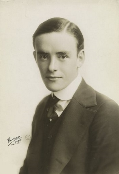 ca. 1918 portrait of American film actor Robert Harron (1893–1920) by American photographer Fred Hartsook (1876–1930).